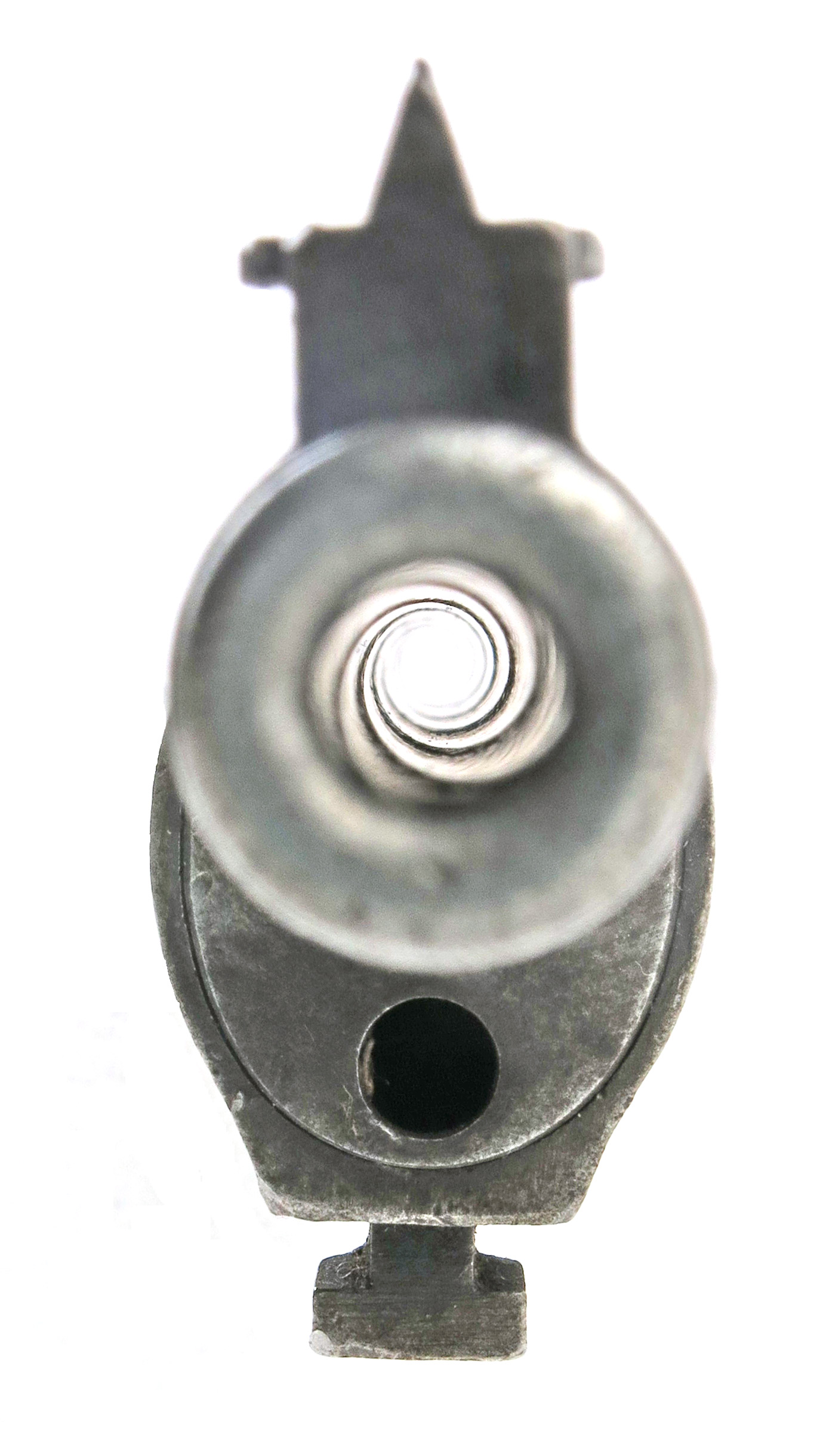 Mauser Model 1896 bolt action 7.92mm calibre bolt action rifle, Anglo Boer War Boer issue weapon made on contract in Germany; South Africa War Trophy Mauser; Model 1896; 7.92mm calibre; bolt action; built-in magazine; carved butt- "Z.A.R. 1900" (Zuid Afrique Republik) inside scrolled markings markings- serial no- matching serial numbers on rifle and bolt- 5961 Manufacturers marks etched in butt wood- CIR 1900 - ZAR stamped trophy number on barrel knox- SAT - 910 maker’s mark- DWM - Berlin missing- firing pin and retaining assembly; broken rear sight manufacturer- Deutsche Waffen und Munitionsfabriken, Berlin, Germany, 1898